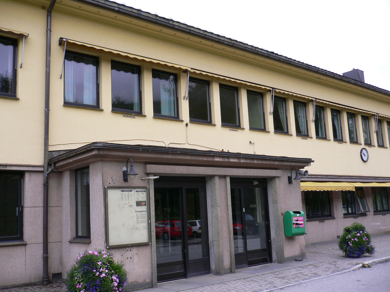 Narvik Station on the Ofoten Line